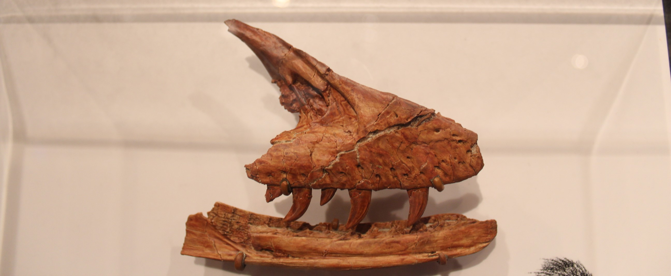 Cast of the known material of Acheroraptor, on display at the Smithsonian's National Museum of Natural History's exhibit The Last American Dinosaurs.